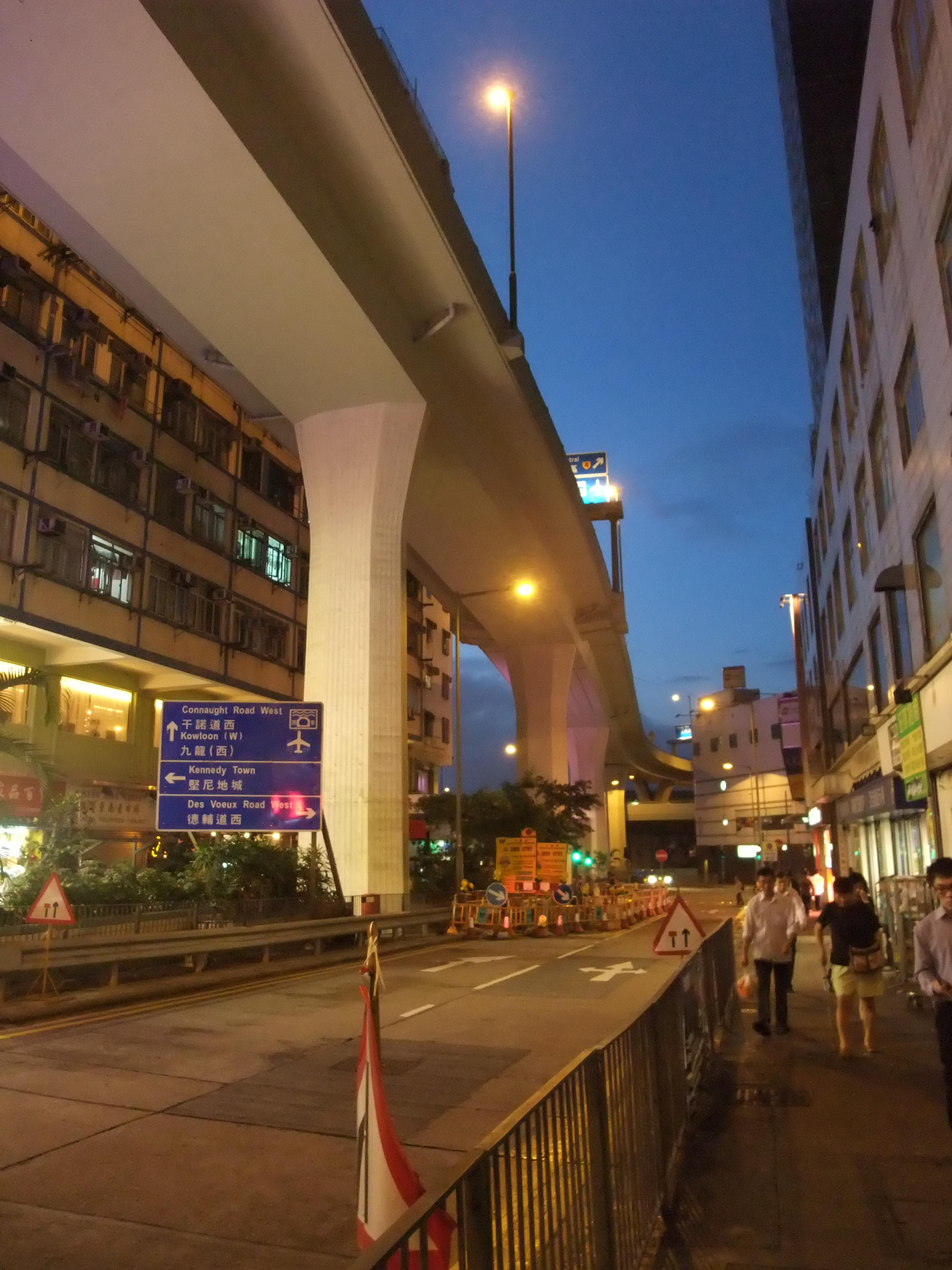 Photo of Hill Road